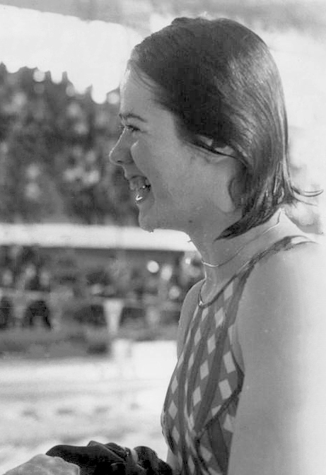 1974 Press Photo Swimmers Melissa Belote and Sylvie le Noach